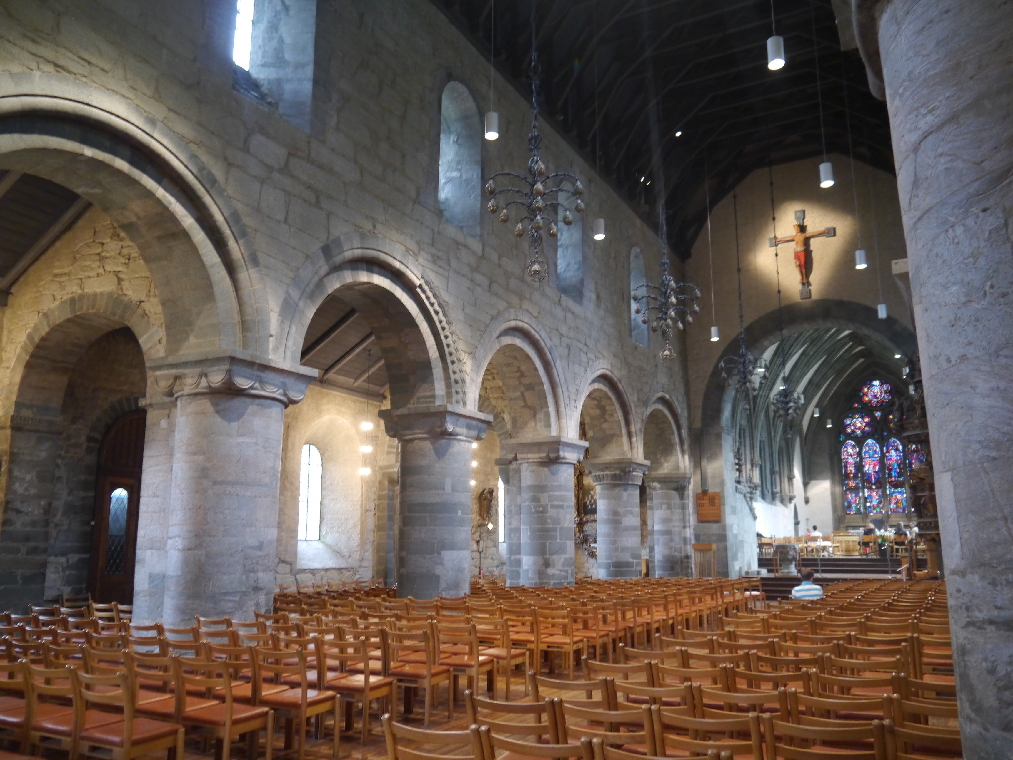 Nave of the Cathedral St. Svithun, Stavanger, Rogaland County, Southwestern Norway